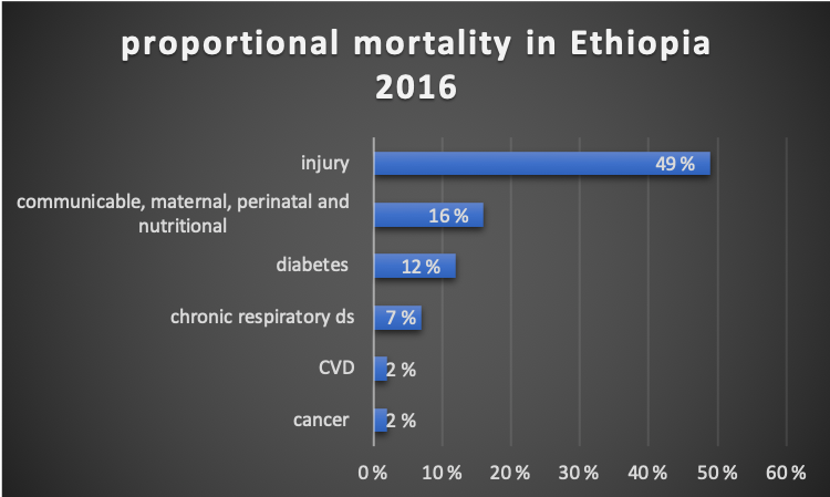 proportional mortality in Ethiopia, 2016